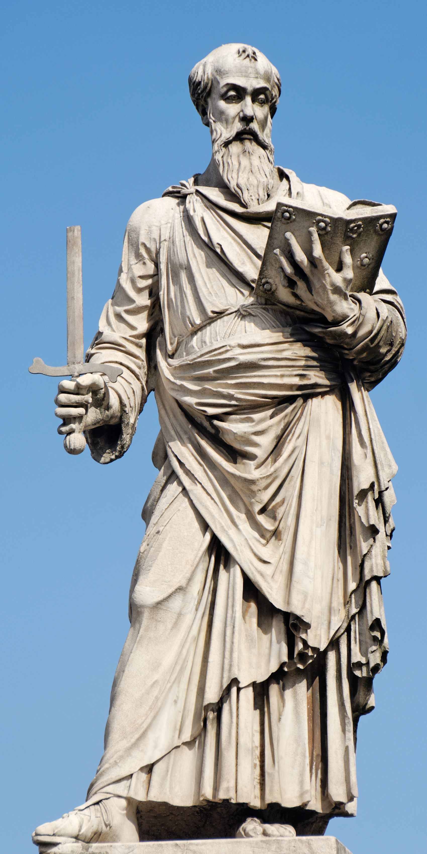 St. Paul by Paolo Romano, with the inscription "Hinc retributio superbis" ("here retribution for the proud"). Marble, 1464.